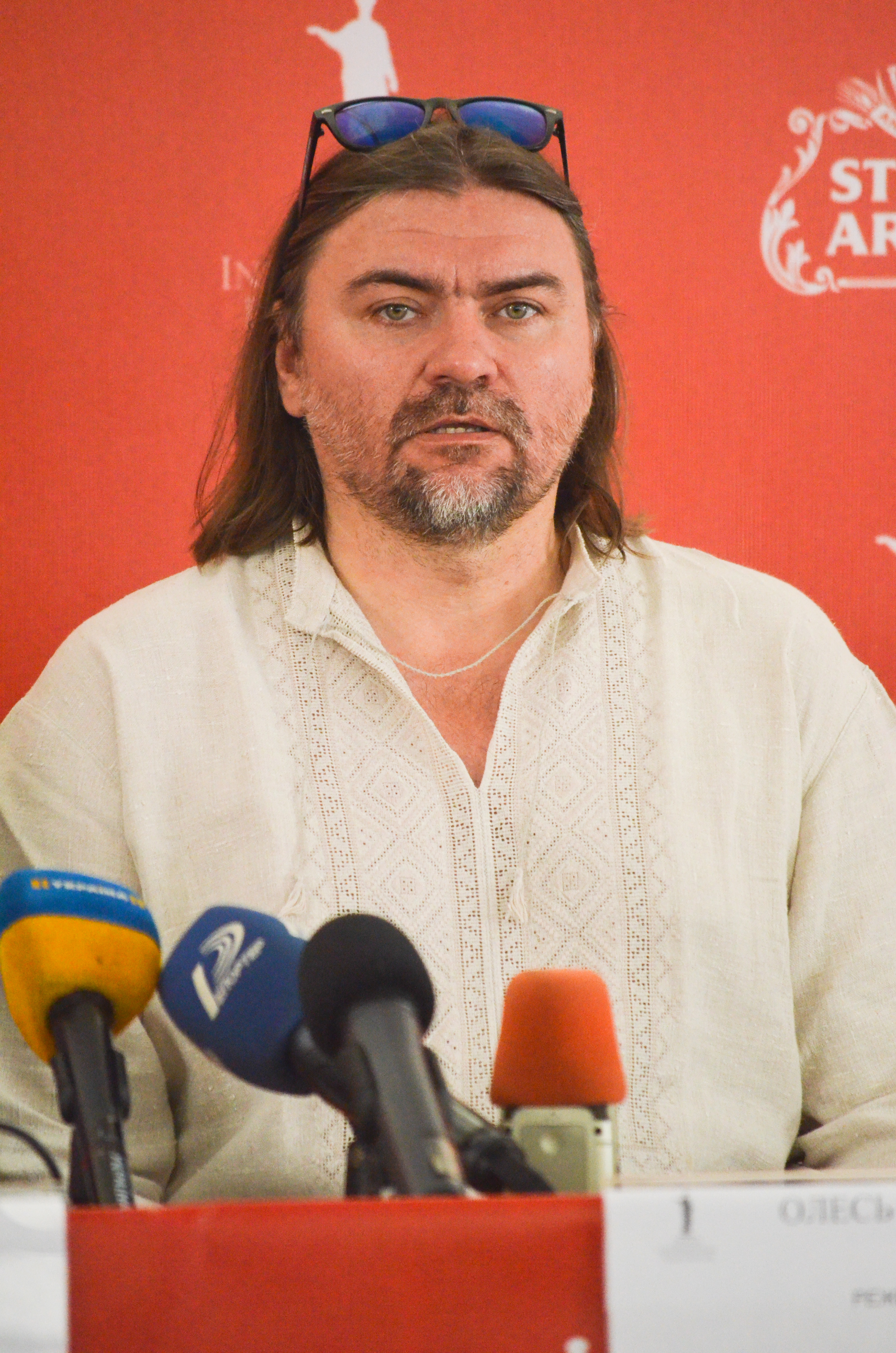 Oles Sanin, Ukrainian film director, at the 5th Odessa International Film Festival.